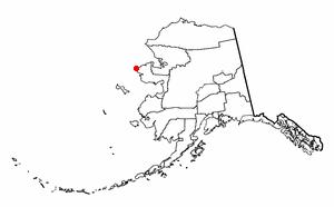 Adapted from Wikipedia's AK borough maps by Seth Ilys.